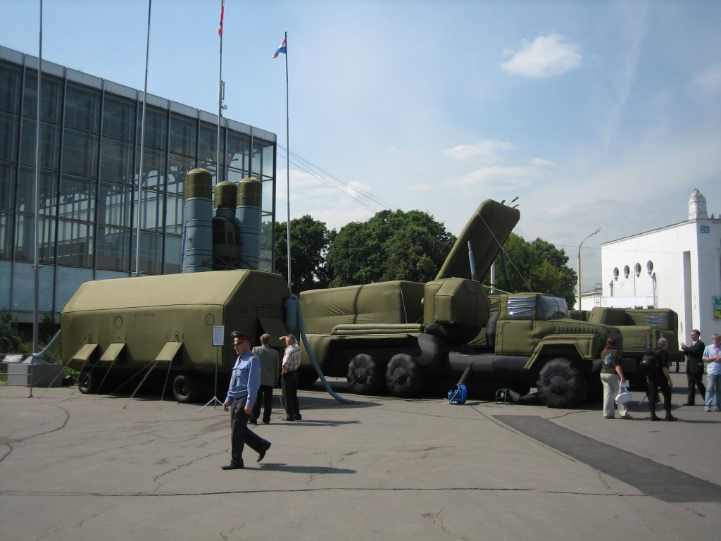 Inflatalbe S-300PMU2 SAM of Russia.